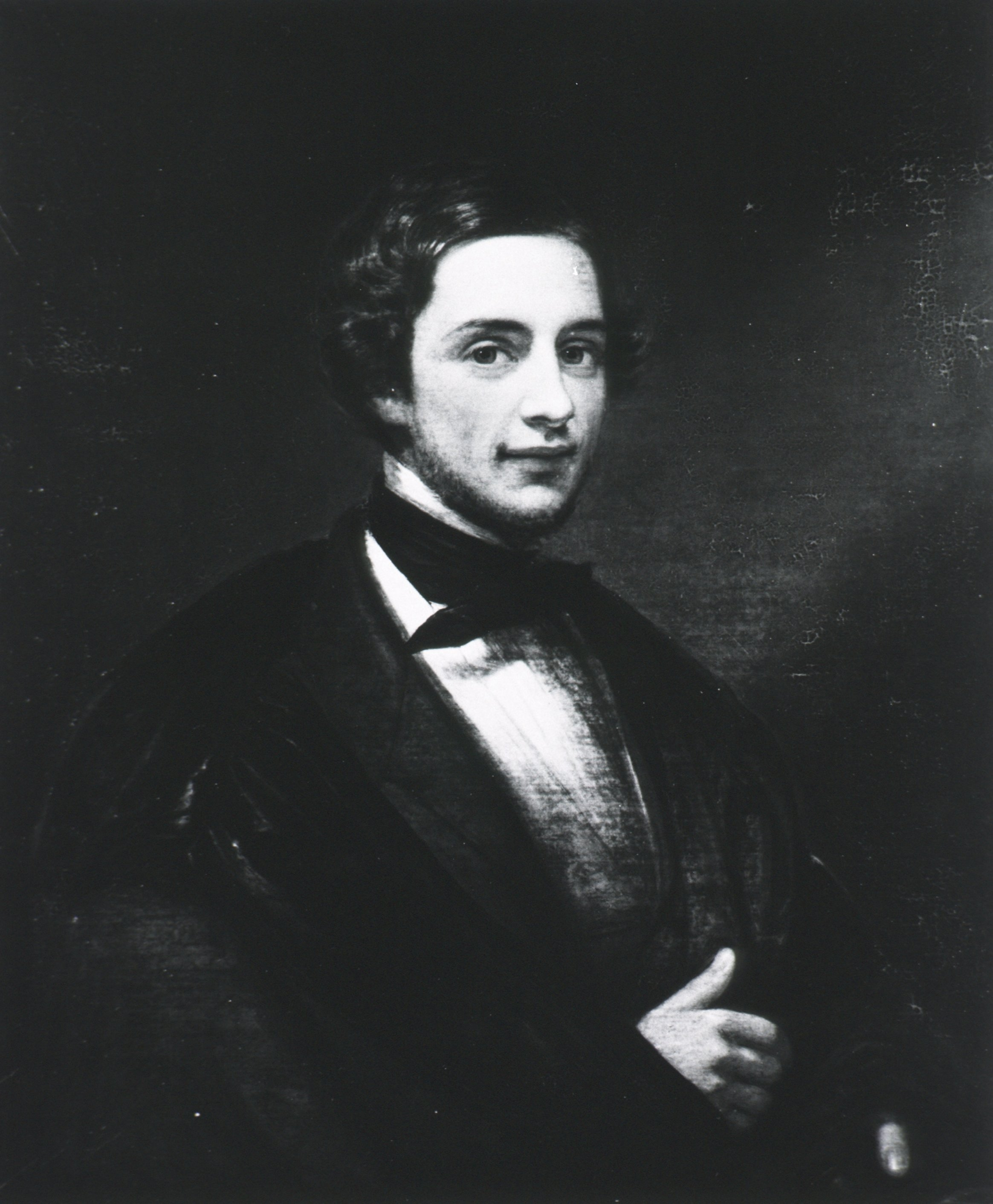 B&W photo of a portrait of Edwin Smith (1822-1906) painted in 1847 by Francisco Anelli, in the collection of the New-York Historical Society. Image obtained from "Images from the History of Medicine (NLM)" Copyright Statement: The National Library of Medicine believes this item to be in the public domain.